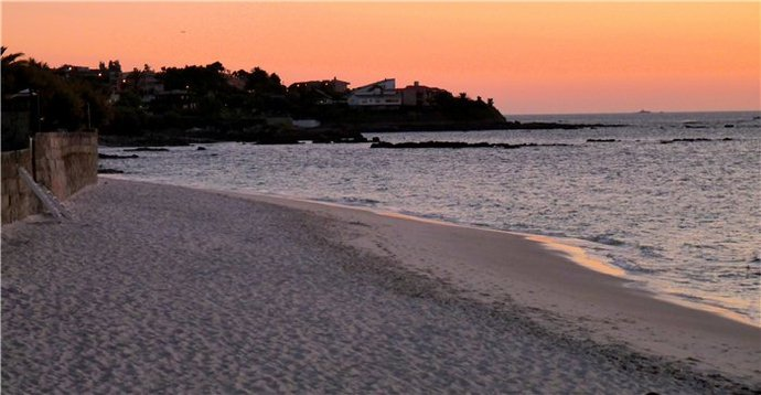 Fuchiños beach.